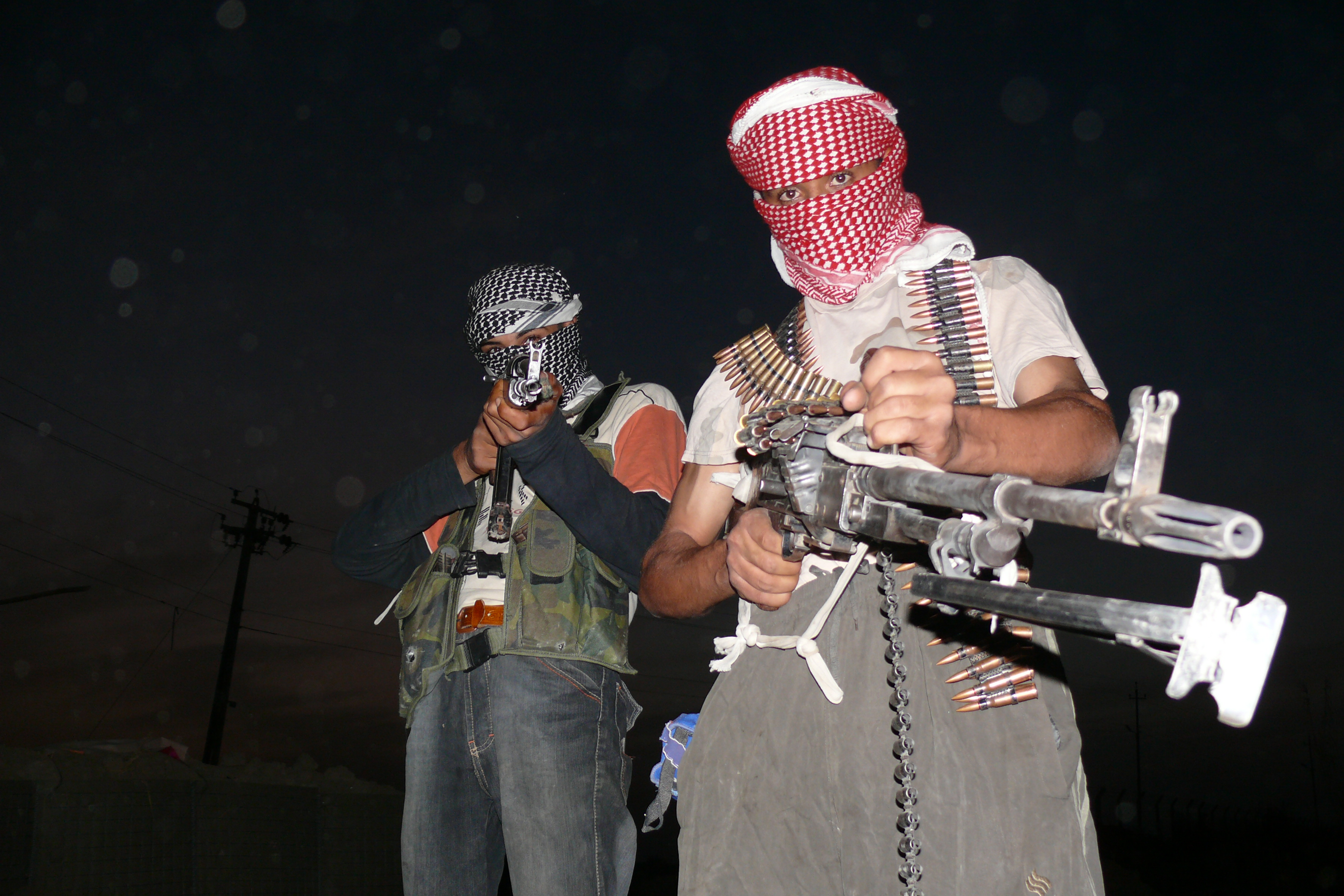 Two armed Iraqi insurgents from northern Iraq, belonging to a faction of the Iraqi insurgency, which carries out attacks on American and coalition forces.